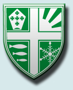 Diocese of Hokkaido